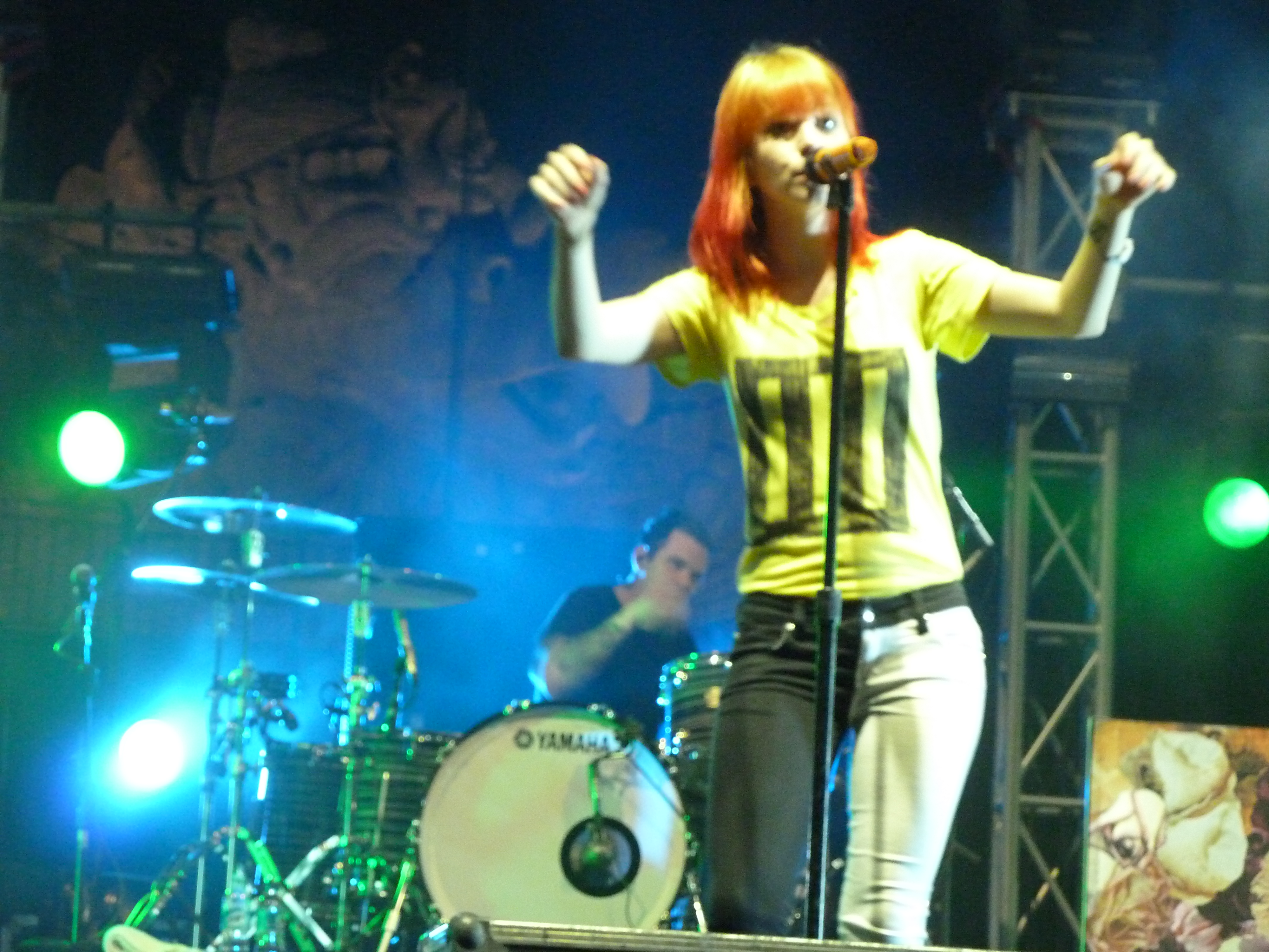 Live in Bali